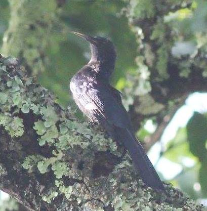 Black scimitarbill near the source of the Cuanavale River in Angola